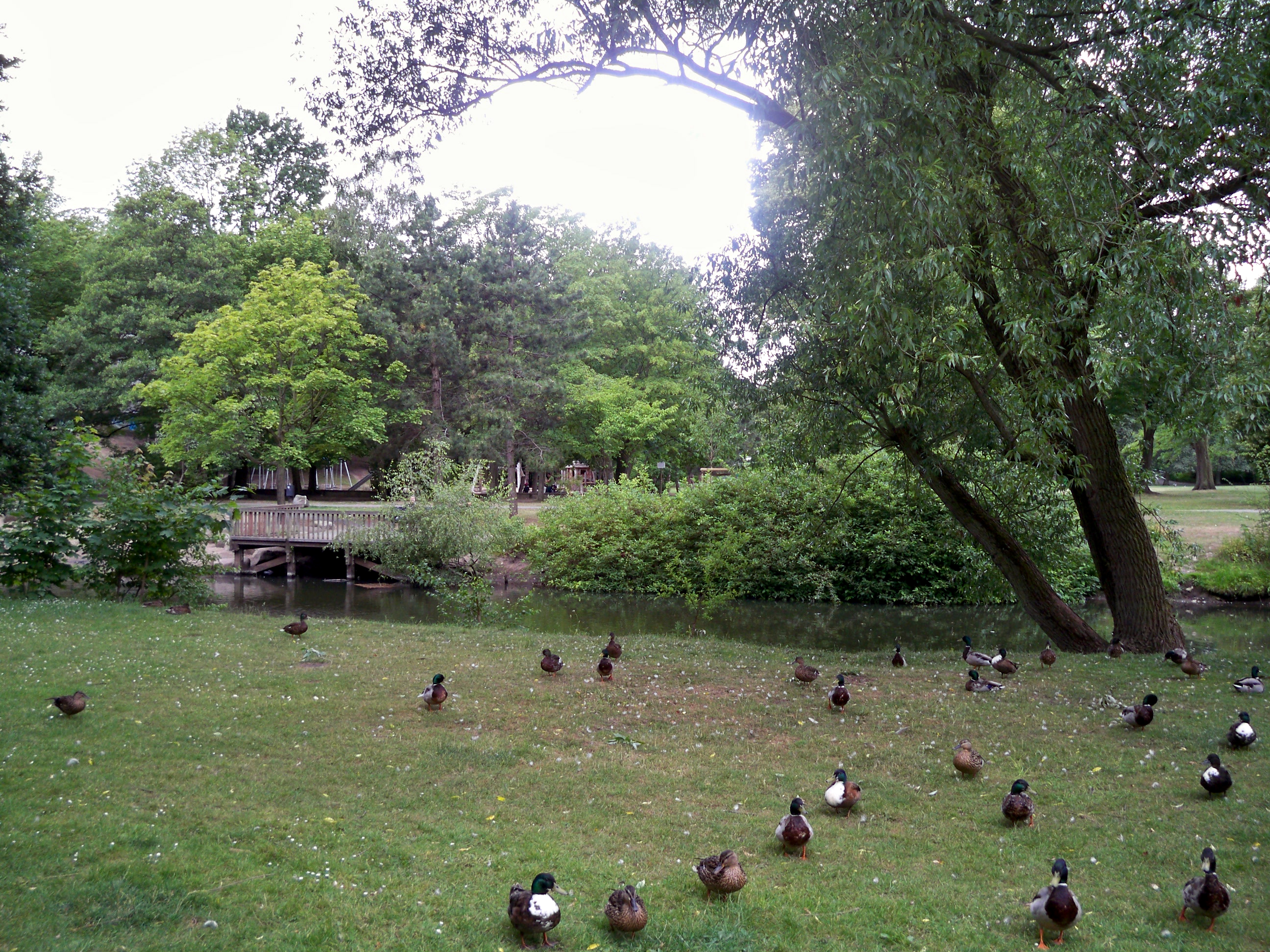 Brunswick, Germany, Neustadtmühlengraben and playground in Inselwallpark